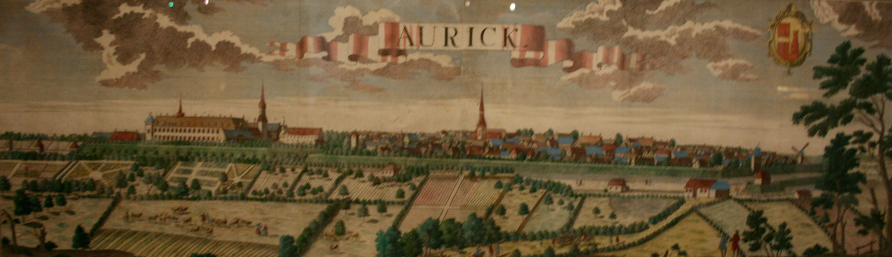 Aurich, Lithography, 1729